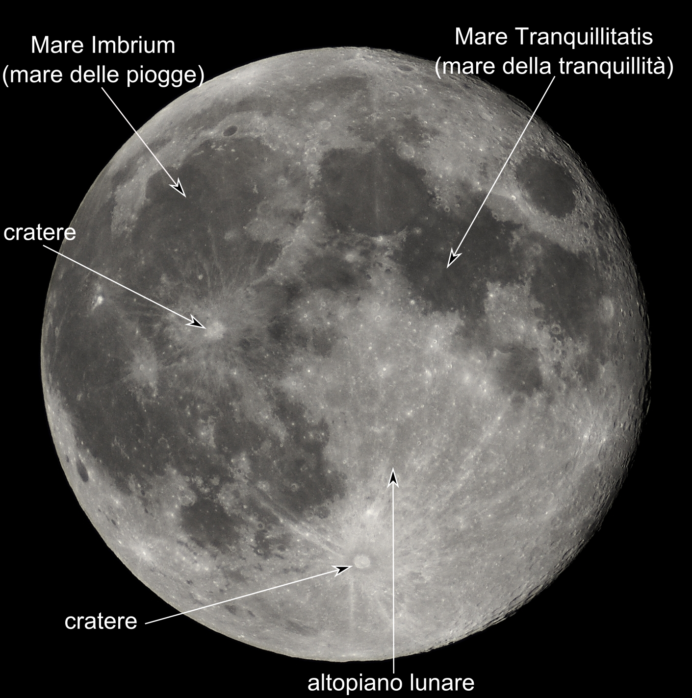 Lunar surface with labels.